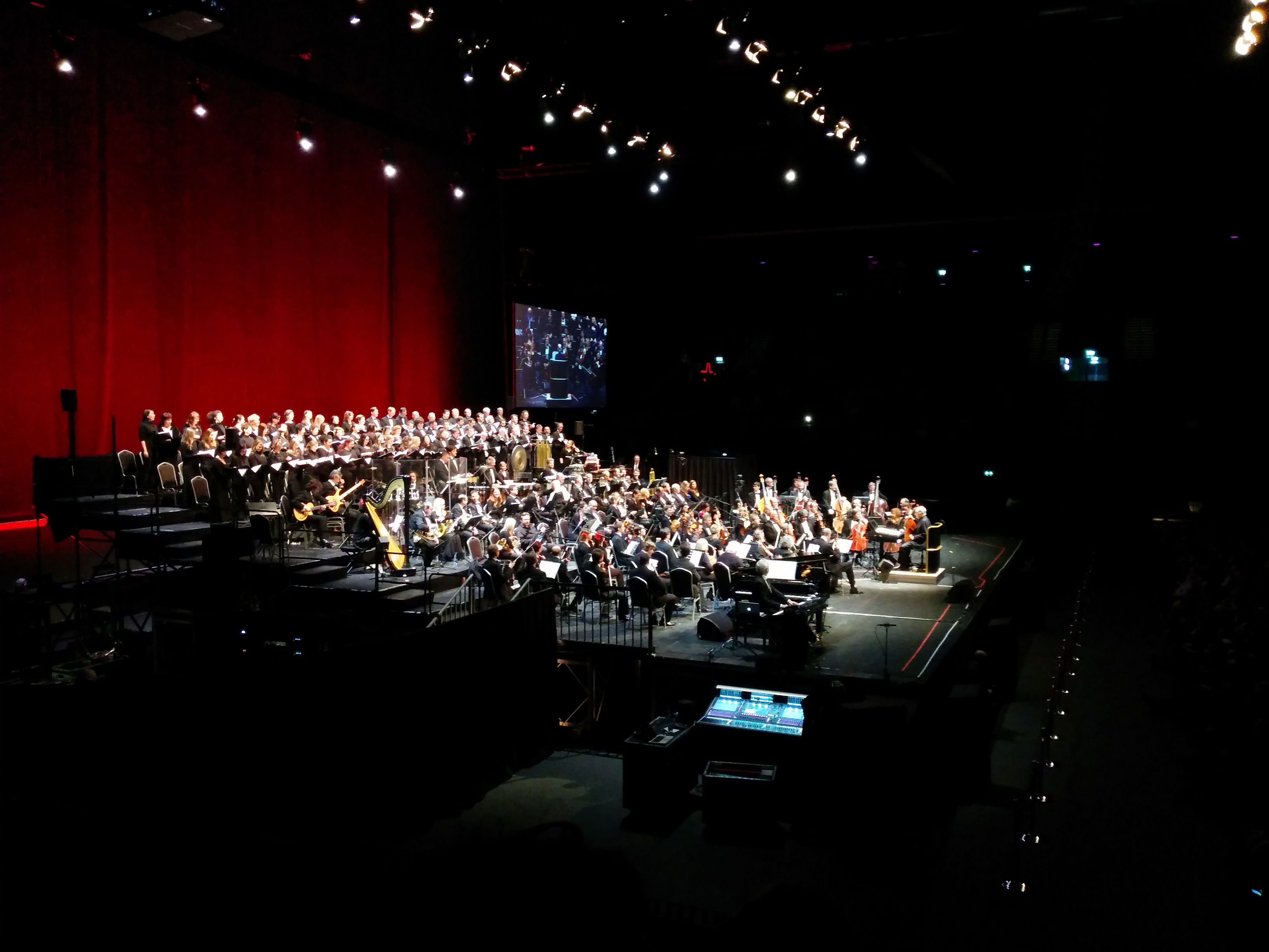 Ennio Morricone at Ziggo Dome in Amsterdam on February 21st, 2016, during his "60 Years of Music Tour".